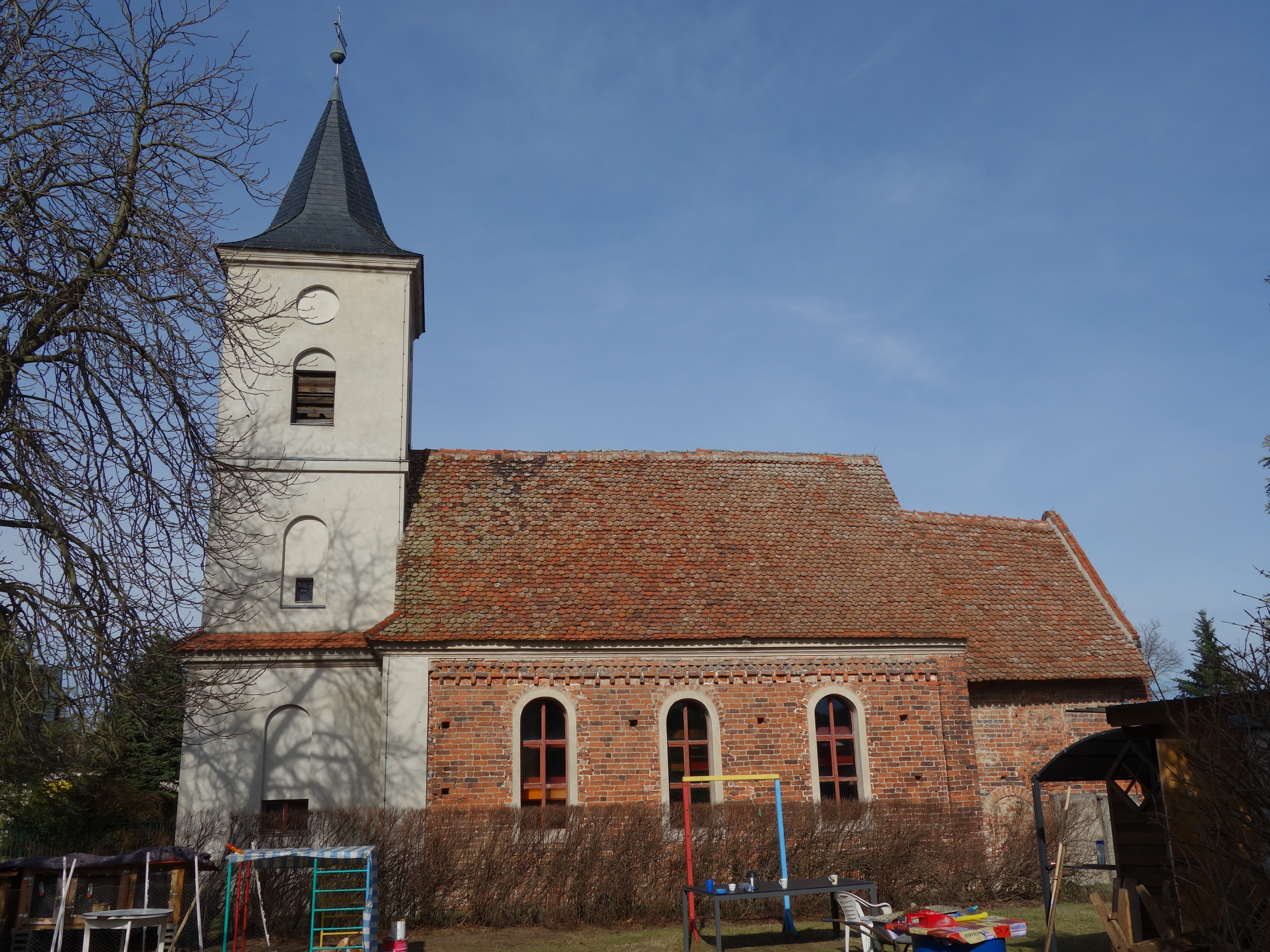 Southern view of church in Bützer, Milower Land municipality, Havelland district, Brandenburg state, Germany.